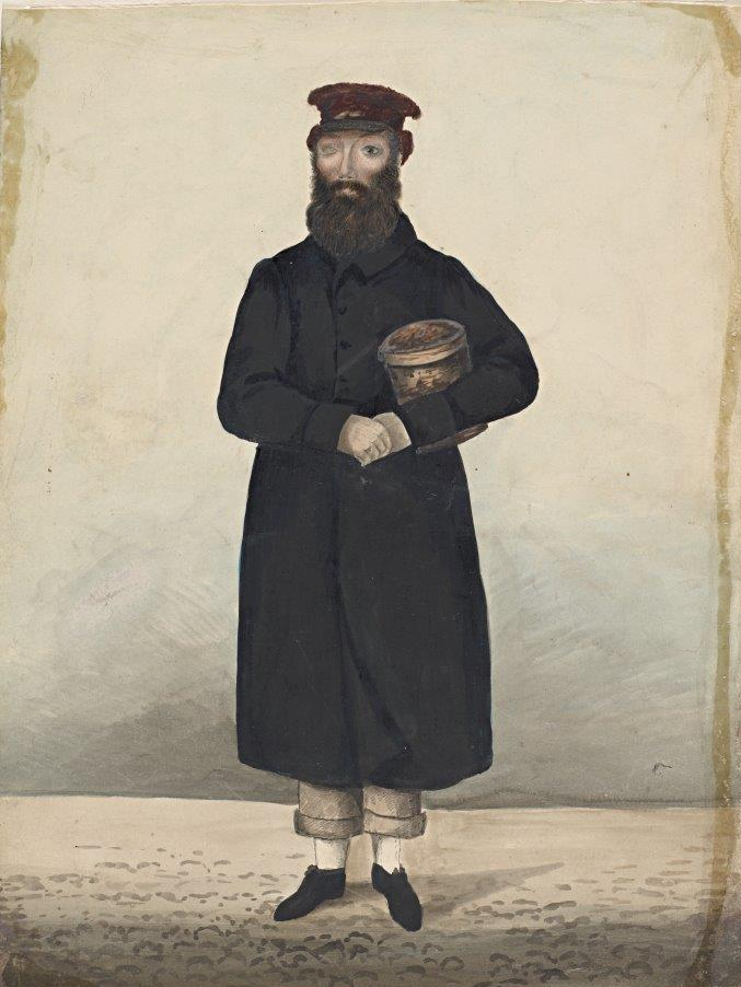 Watercolour painting of James Guidney (aka 'Jemmy the Rock Man') by John Church Dempsey, Birmingham. Now in the collection of the Tasmanian Museum and Art Gallery.